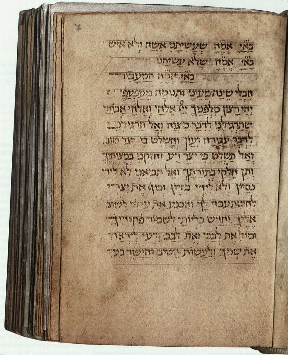 Siddur Shavuot for women